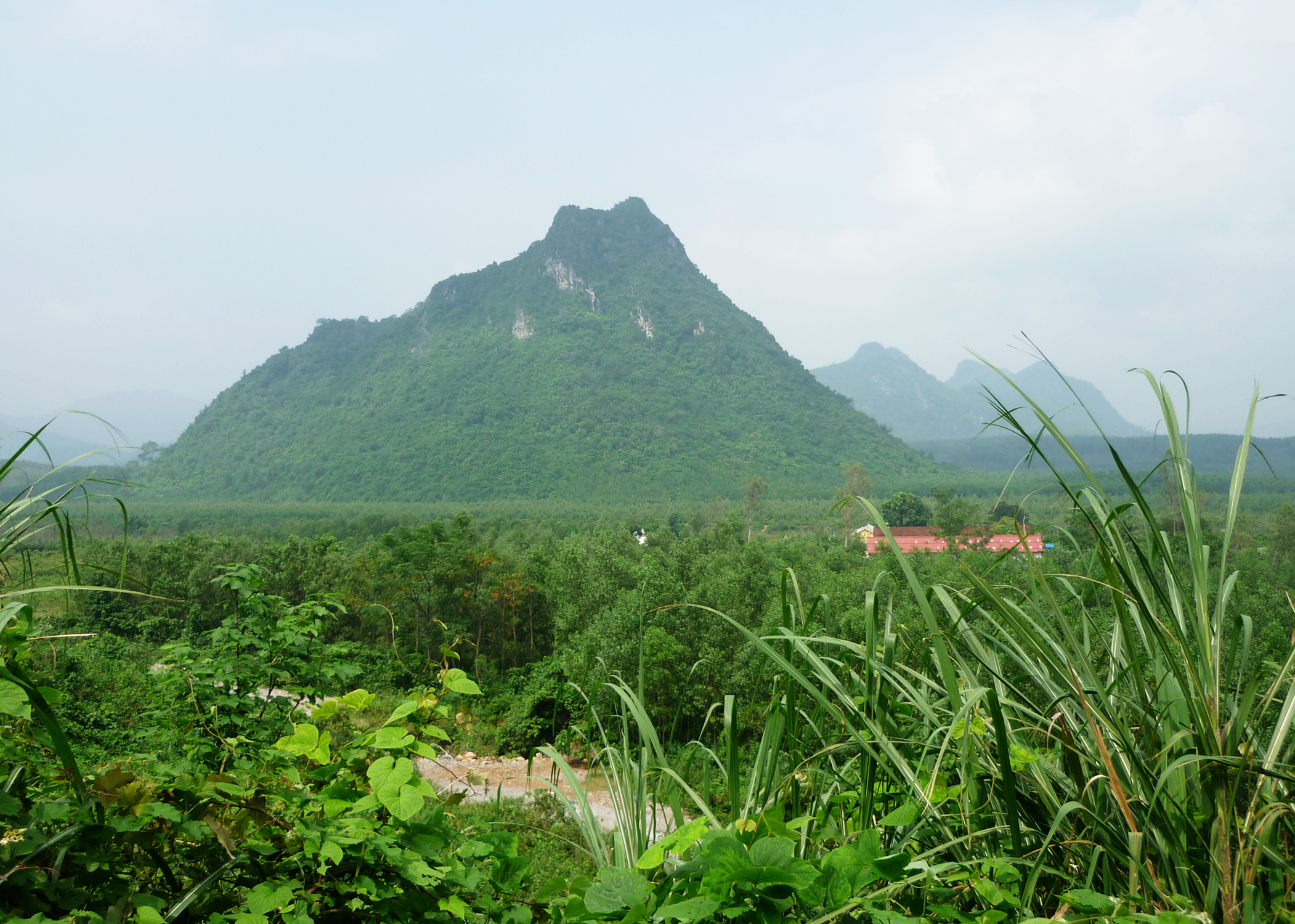 The Rockpile